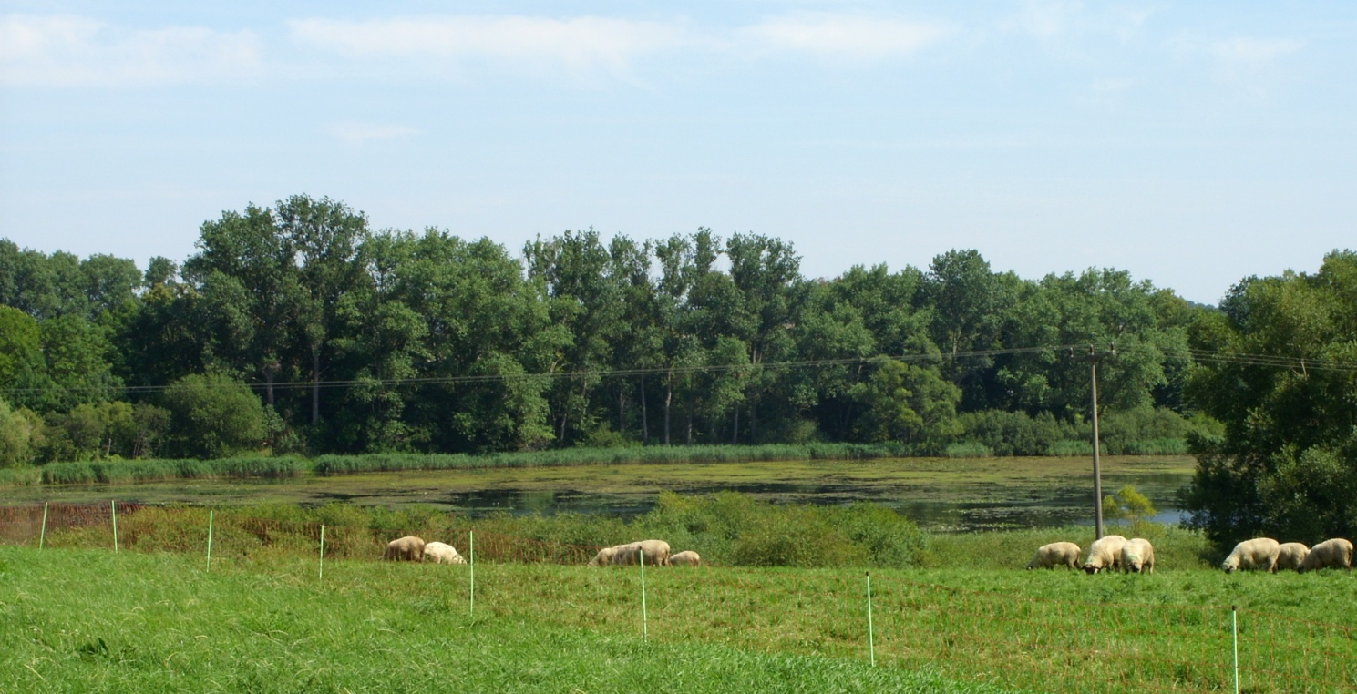 Lake Barner Stücker See near Schwerin, Mecklenburg-Vorpommern, Germany